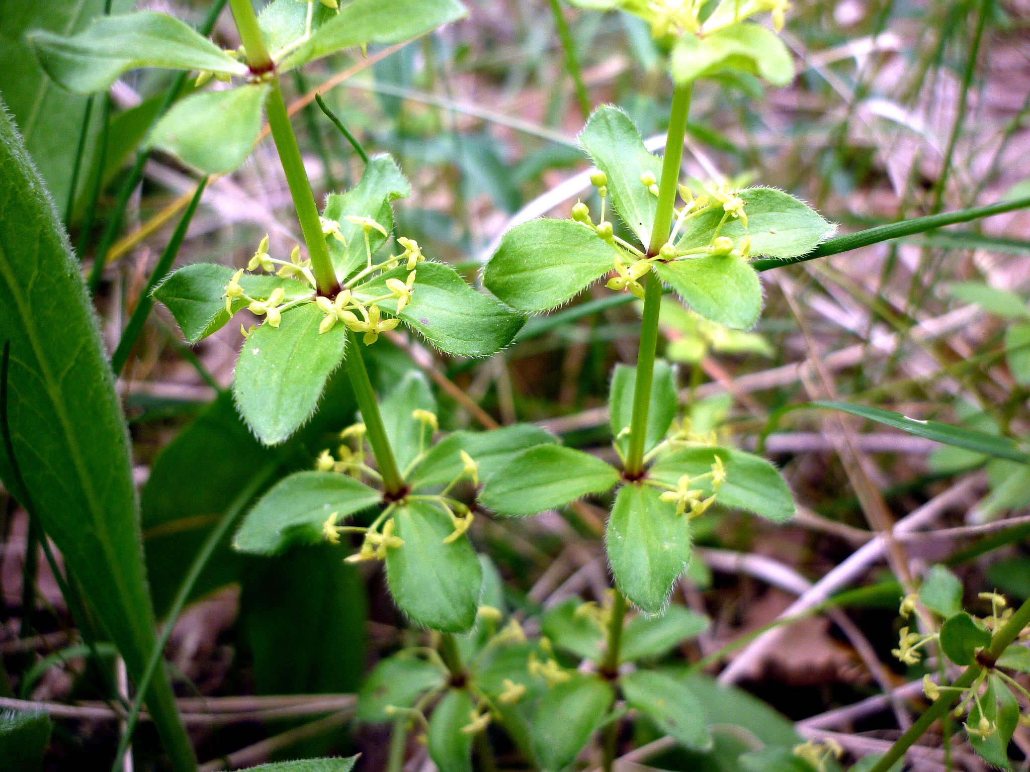 Cruciata glabra. In Torà (Segarra- Catalunya). On 580 m. altitude